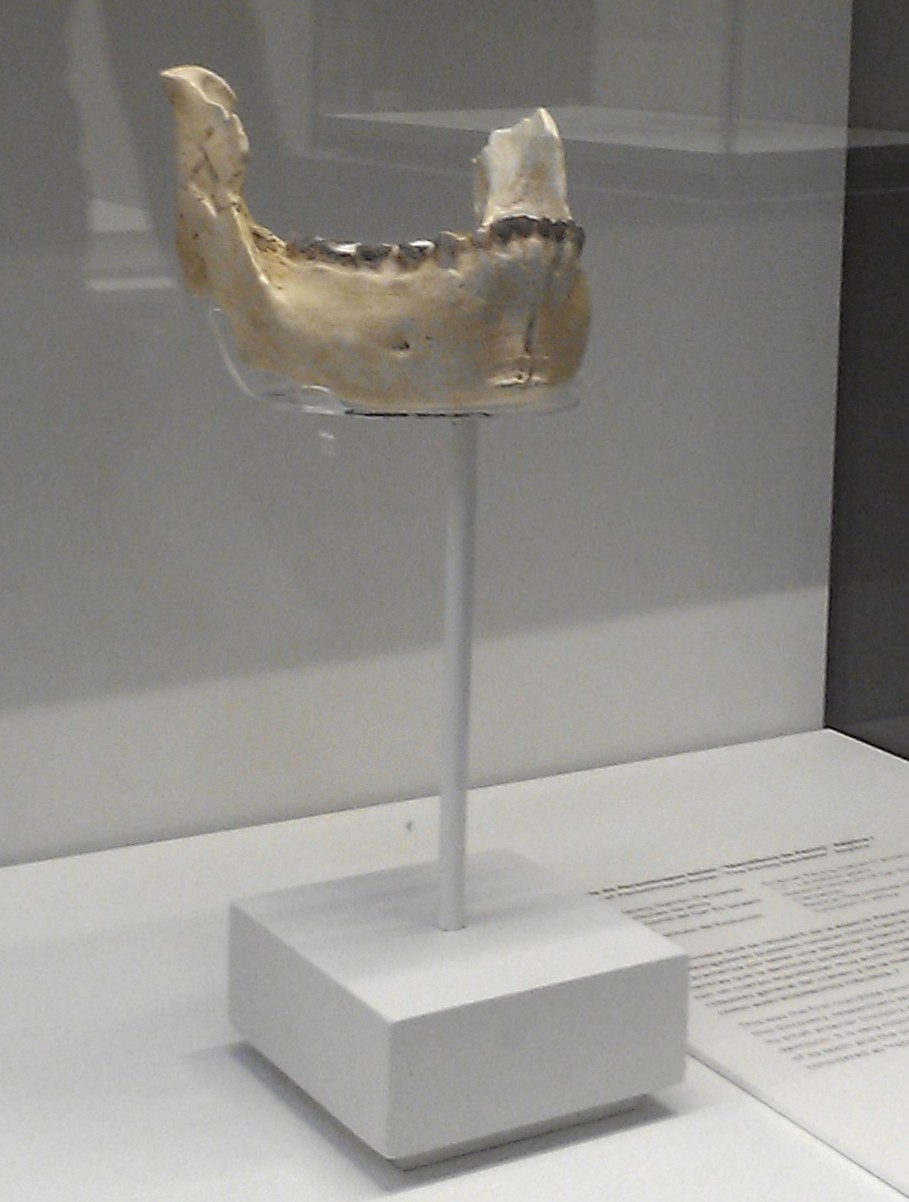 The Peninj Mandible is the fossilized lower jaw and teeth of the species Paranthropus boisei. It was discovered in Peninj, Tanzania by Richard Leakey in 1964. It is estimated to be 1.5 million years old. Its characteristics are a heavy build with large molars and small incisors. Replica exhibited at Madrid.